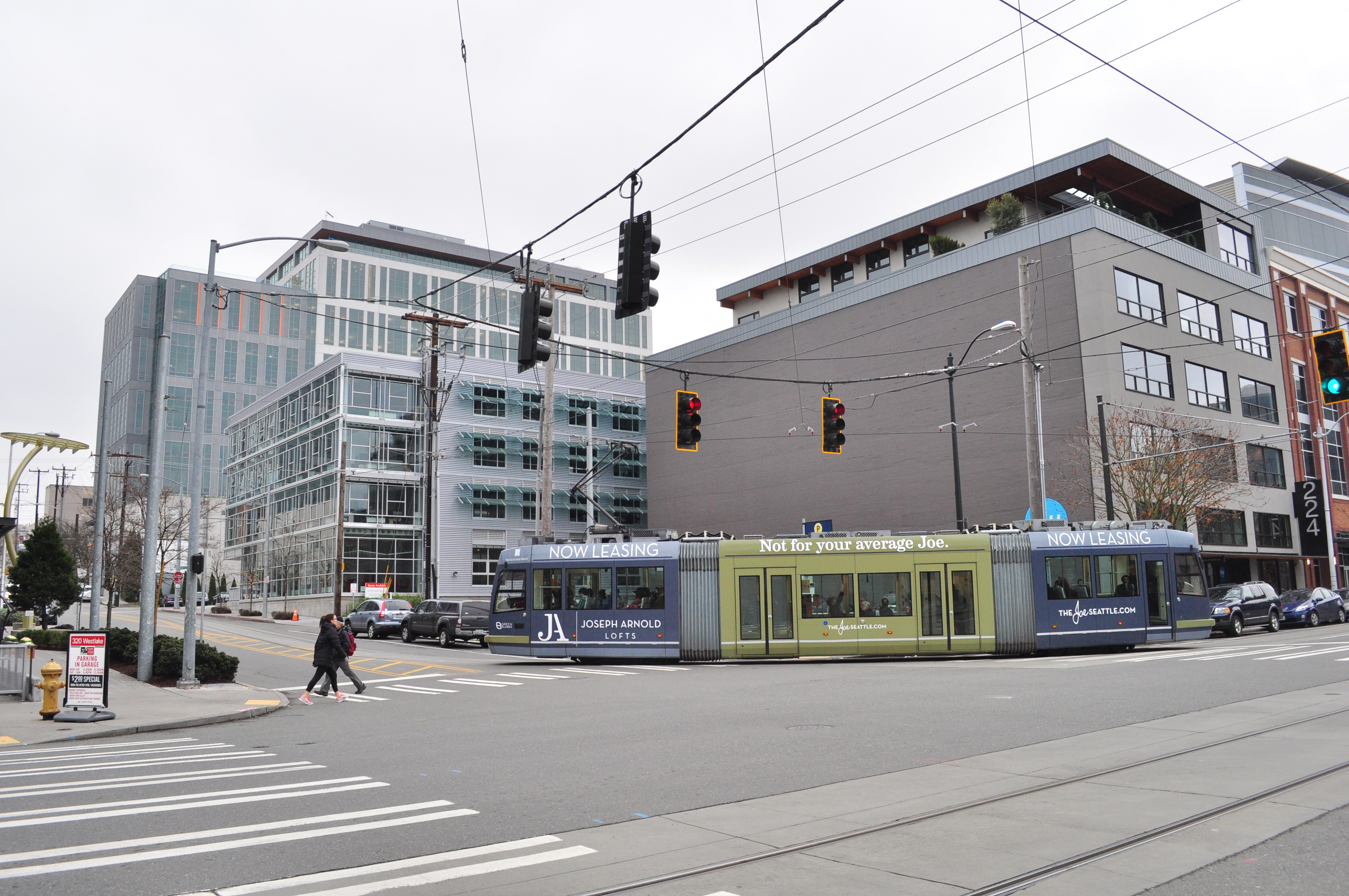 Streetcar at Westlake Ave. N. and Thomas Street, South Lake Union, Seattle, Washington.